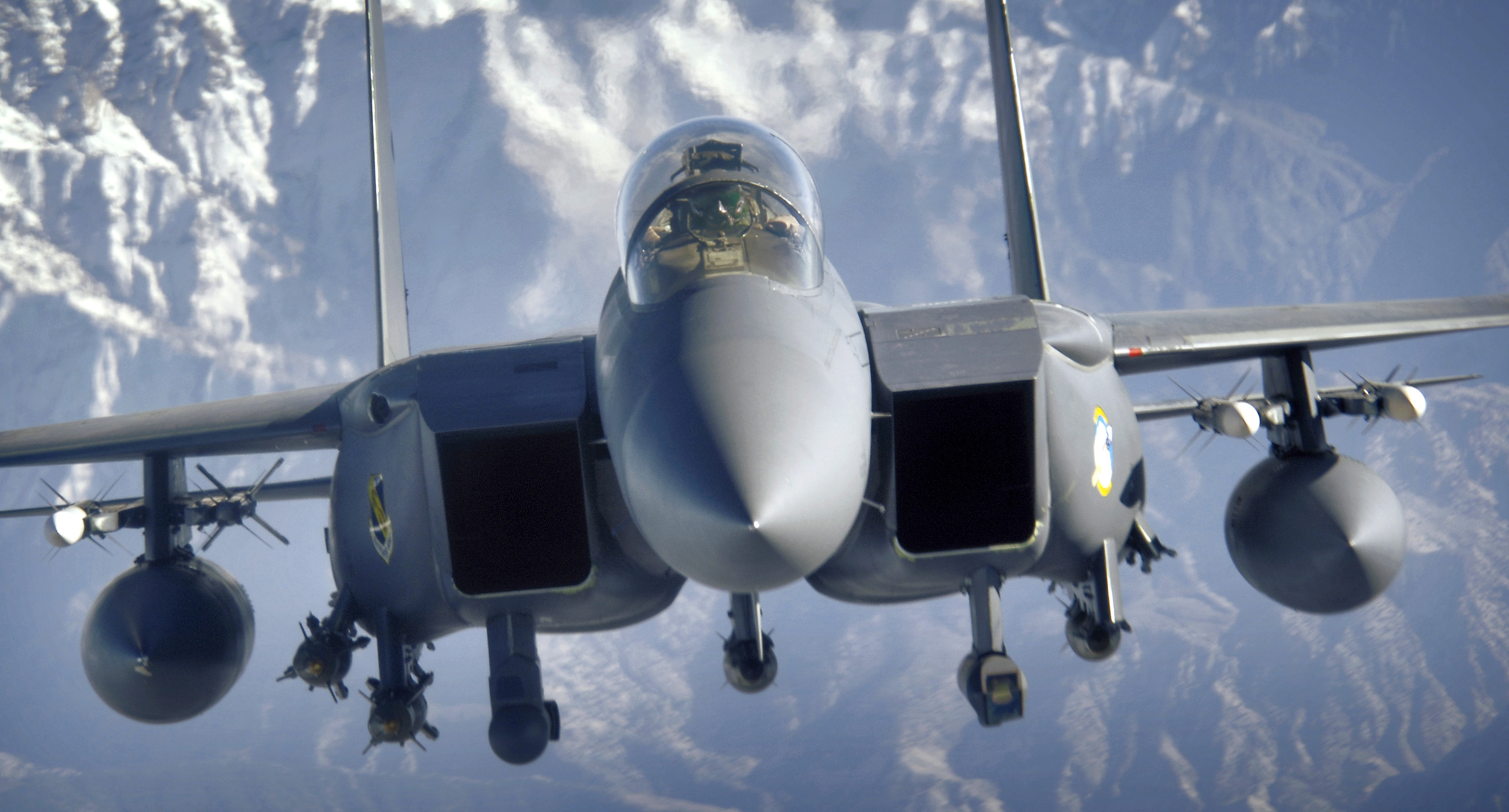 An F-15E Strike Eagle soars over the mountains of Afghanistan in support of Operation Mountain Lion on Wednesday, April 12, 2006. The crew and fighter are deployed to the 336th Expeditionary Fighter Squadron in Southwest Asia from the 4th Fighter Wing at Seymour Johnson Air Force Base, N.C. (U.S. Air Force photo/Master Sgt. Lance Cheung)